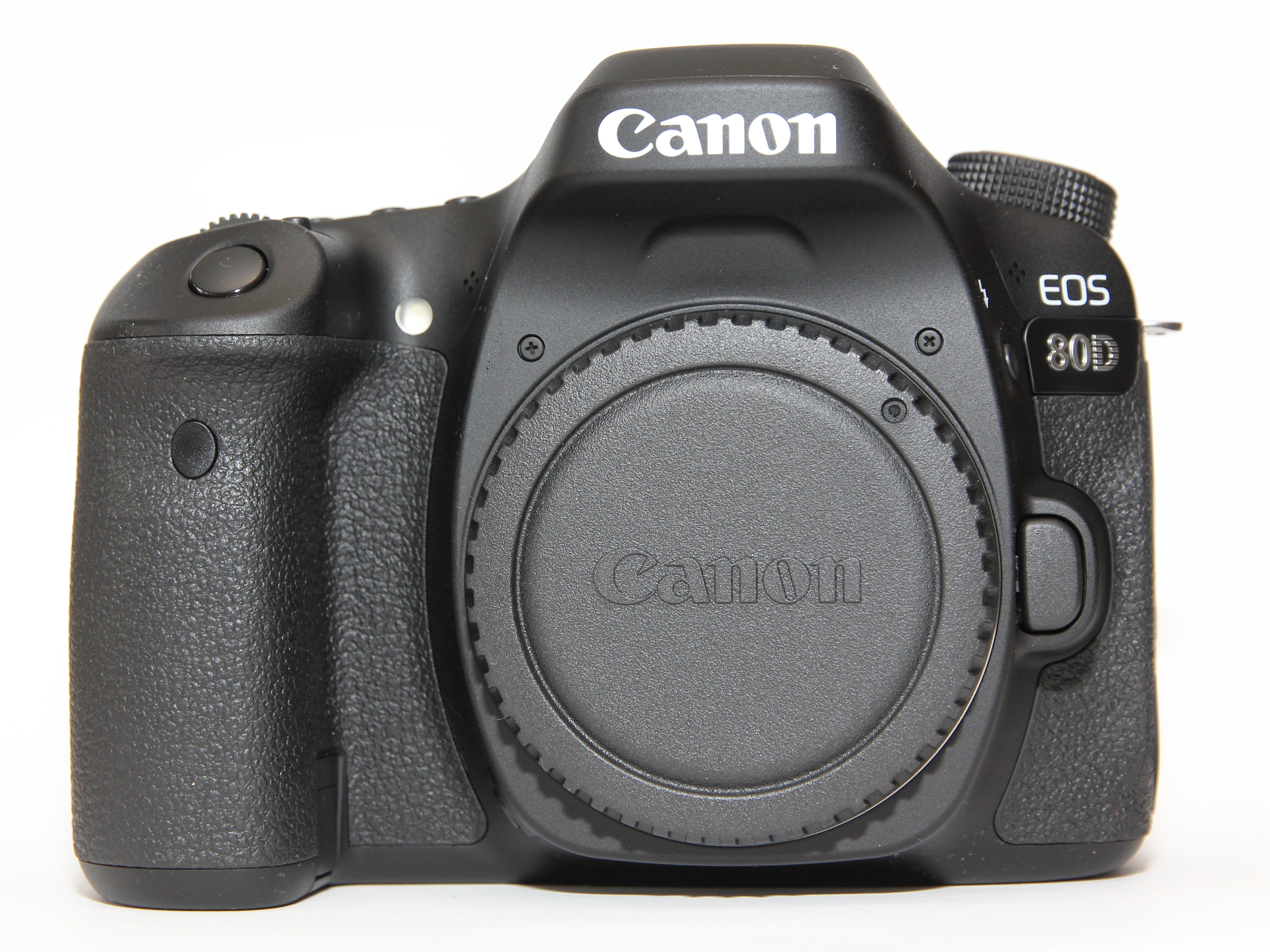 Canon EOS 80D DSLR body.